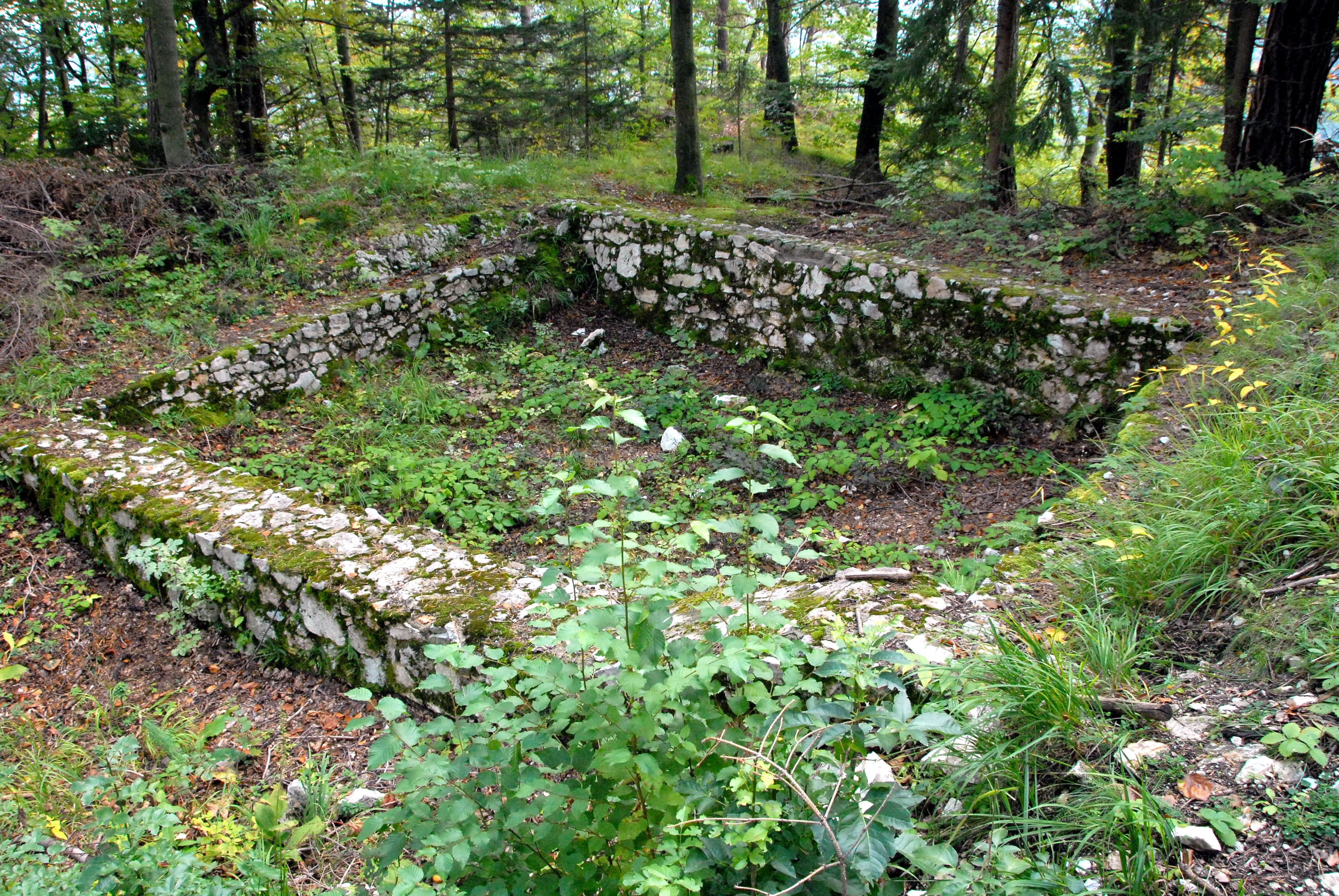 Tower near the gateway to the fortress on the Tscheltschnigkogel near “Warmbad” in Villach, Carinthia, Austria